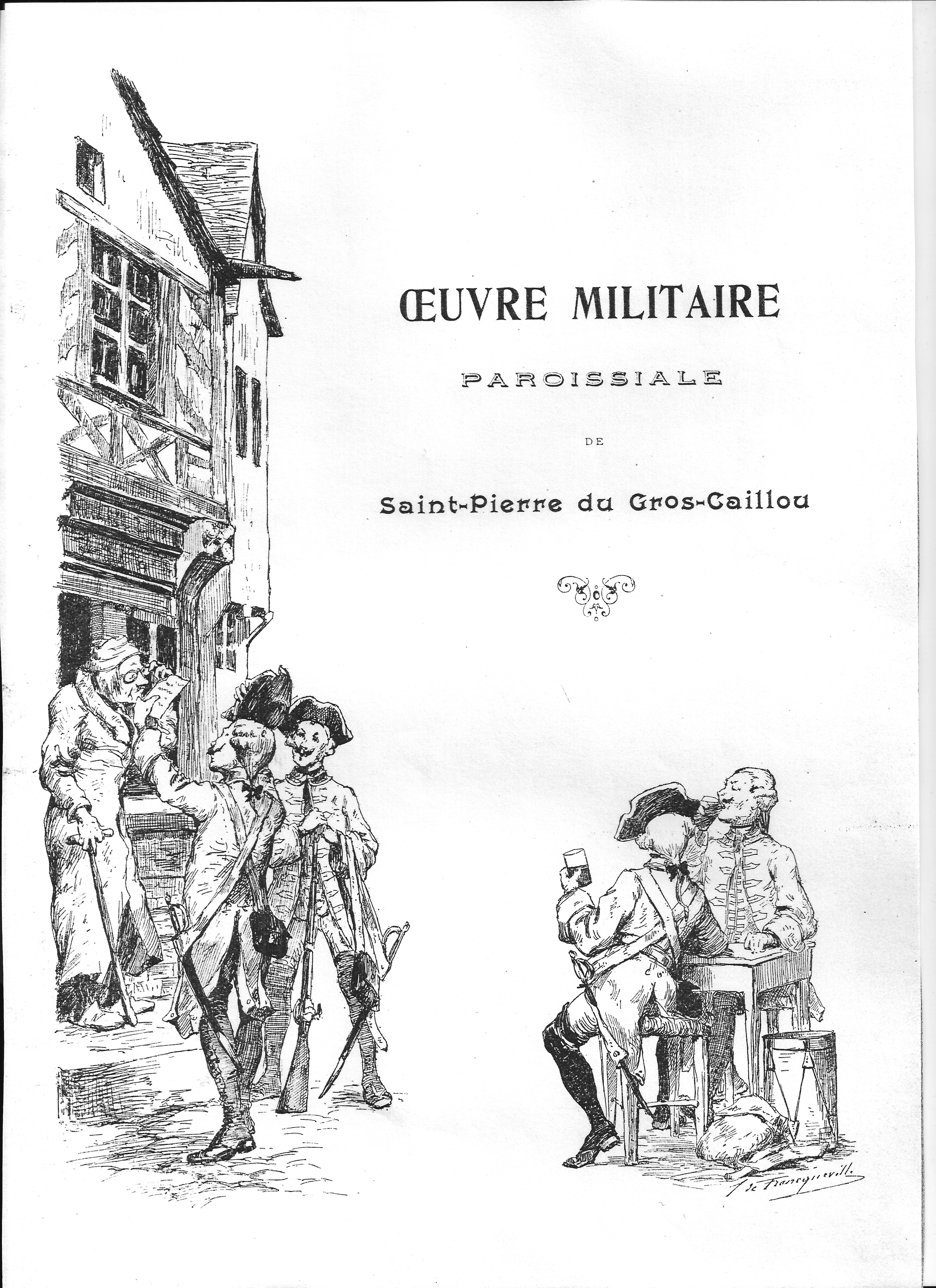 Affiche 2 Jean de francqueville